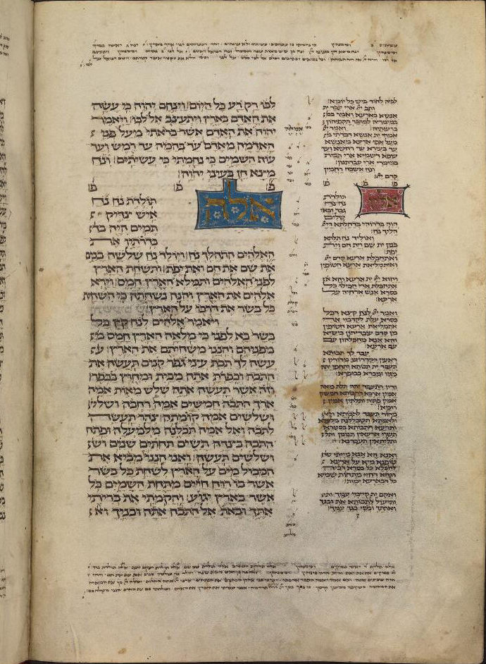 Page from a Hebrew Bible, Shelfmark: MS. Kennicott 3. Item description: "Humash (Pentateuch) with Onkelos (Aramaic translation), the Five Scrolls (Song of Songs, Ruth, Ecclesiastes, Lamentations, and Esther) and Haftarot (selections from the books of Prophets). With both Masorahs and vocalized (except for the last two Haftarot on Ta‘anit)". Digitised by the Polonsky Foundation Digitization Project. More provenance information at